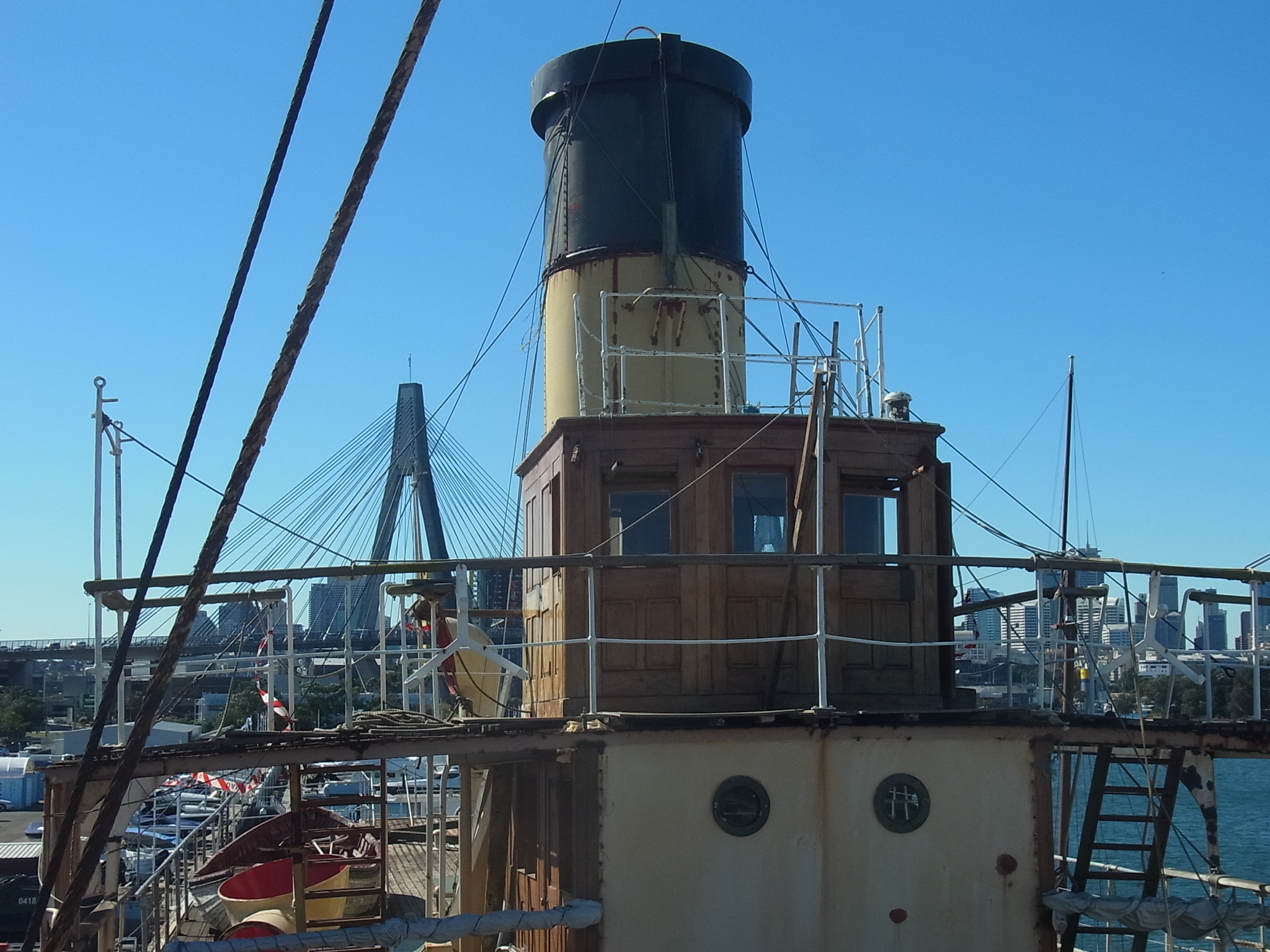 awning around wheelhouse has been removed